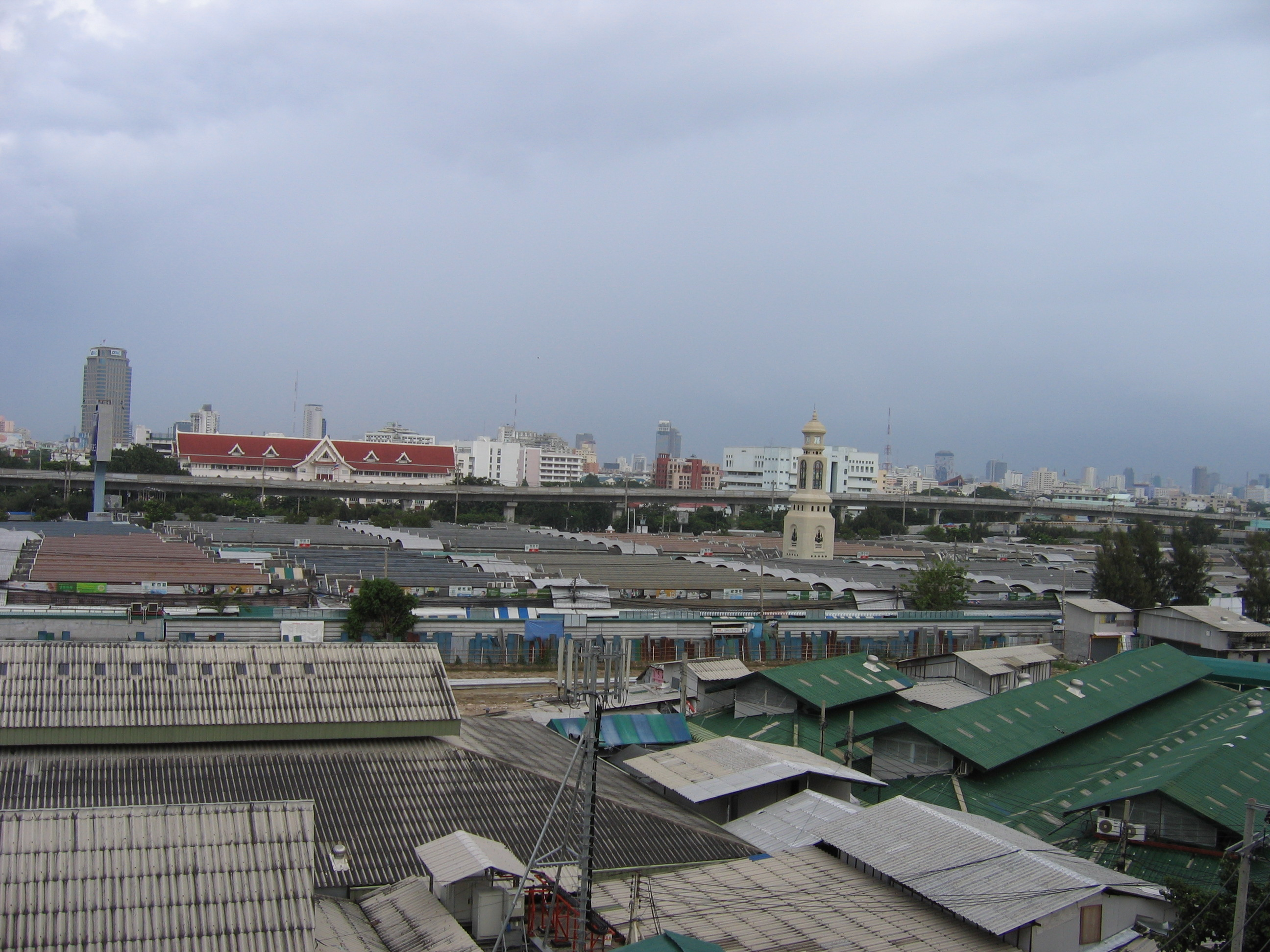 Chatuchak weekend market - Part of the massive market with the clock tower shown in the middle.